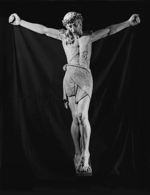 Near life-sized figure of Christ in Queensland beech wood carved by Walter Langcake in 1937 that surmounts the reredos of the altar in St. Thomas Aquinas' church, 43 Bromby Street, South Yarra, Victoria.